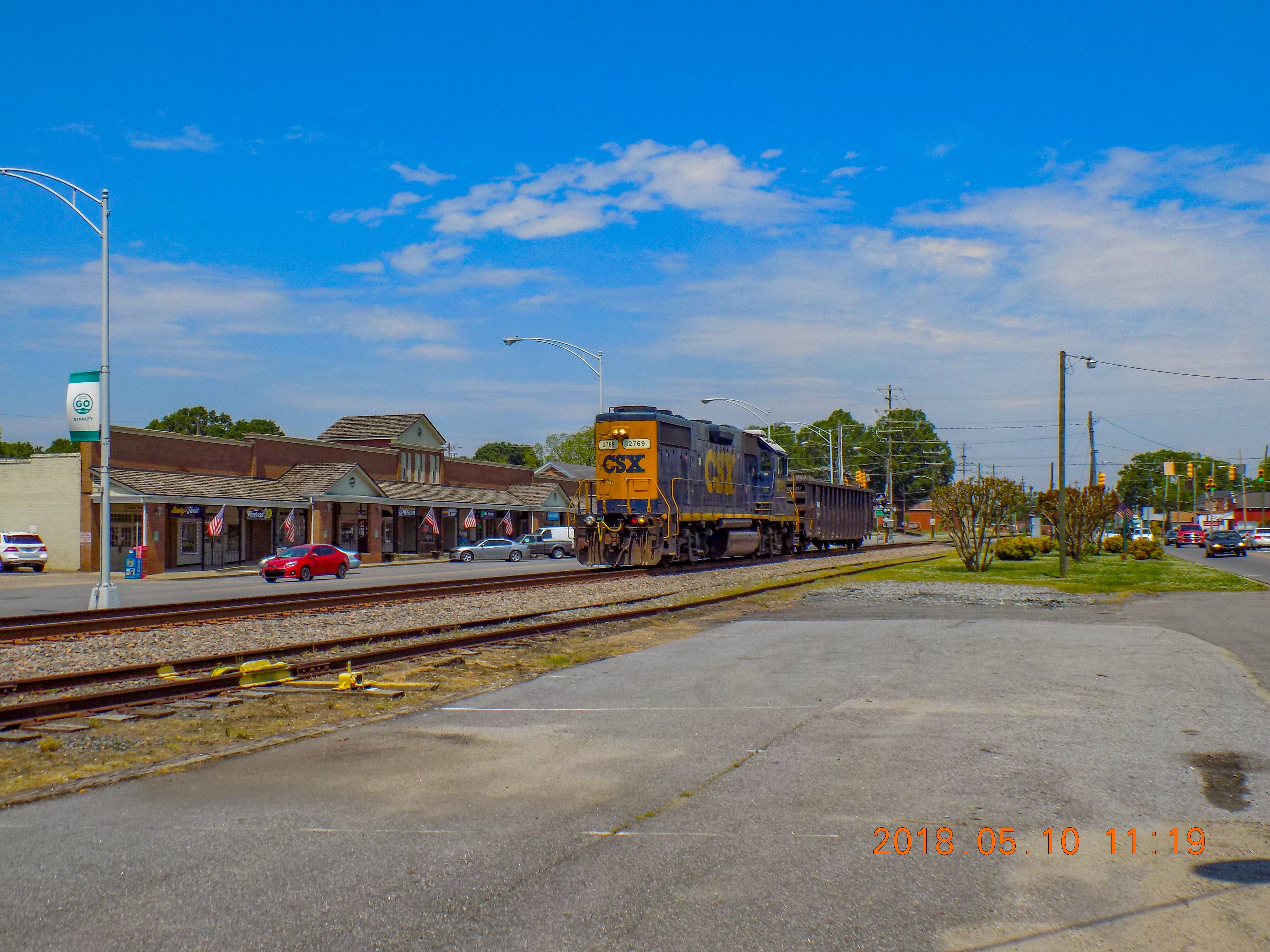 Stanley, North Carolina CSX train through downtown Stanley, NC.